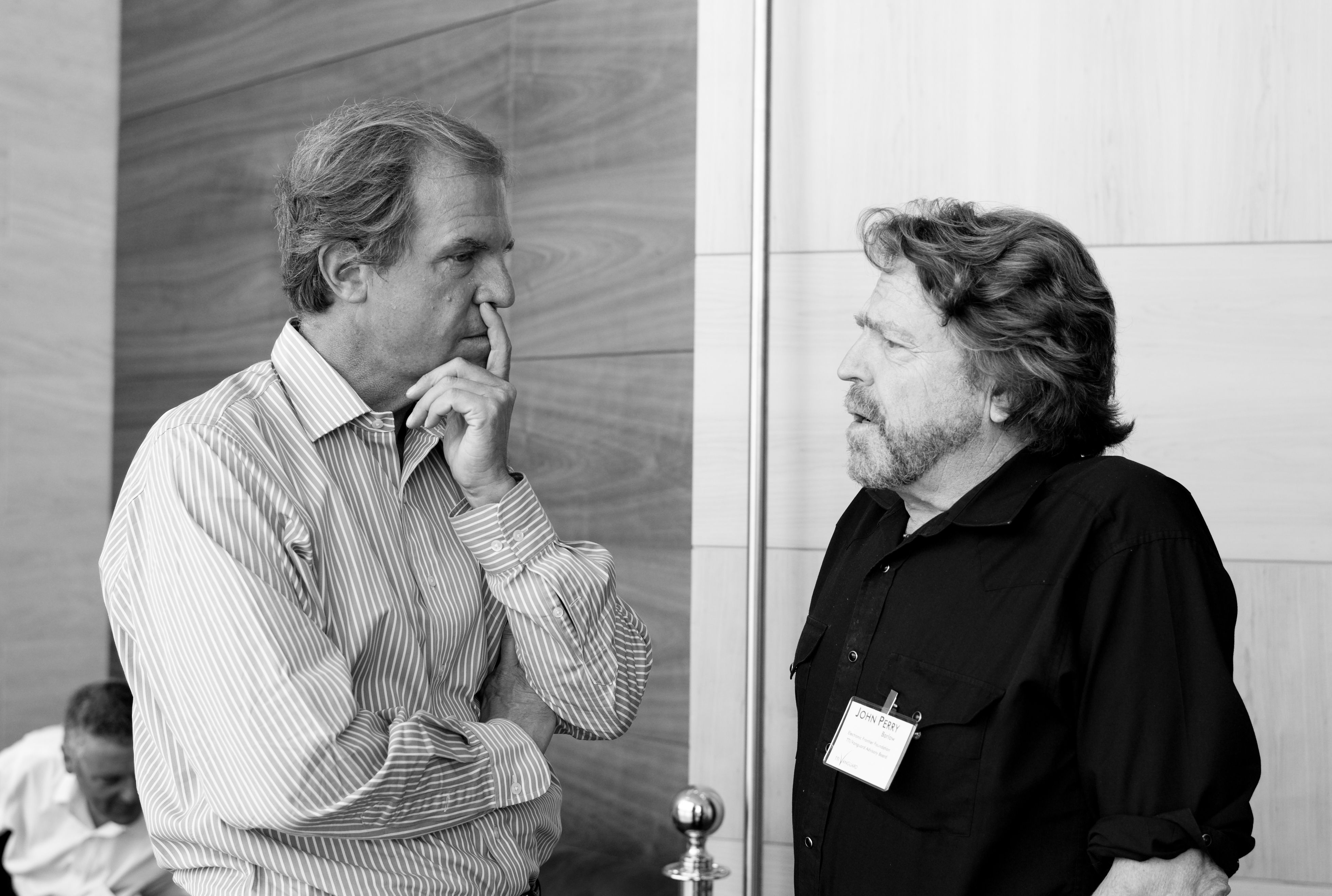 Nicholas Negroponte and John Perry Barlow